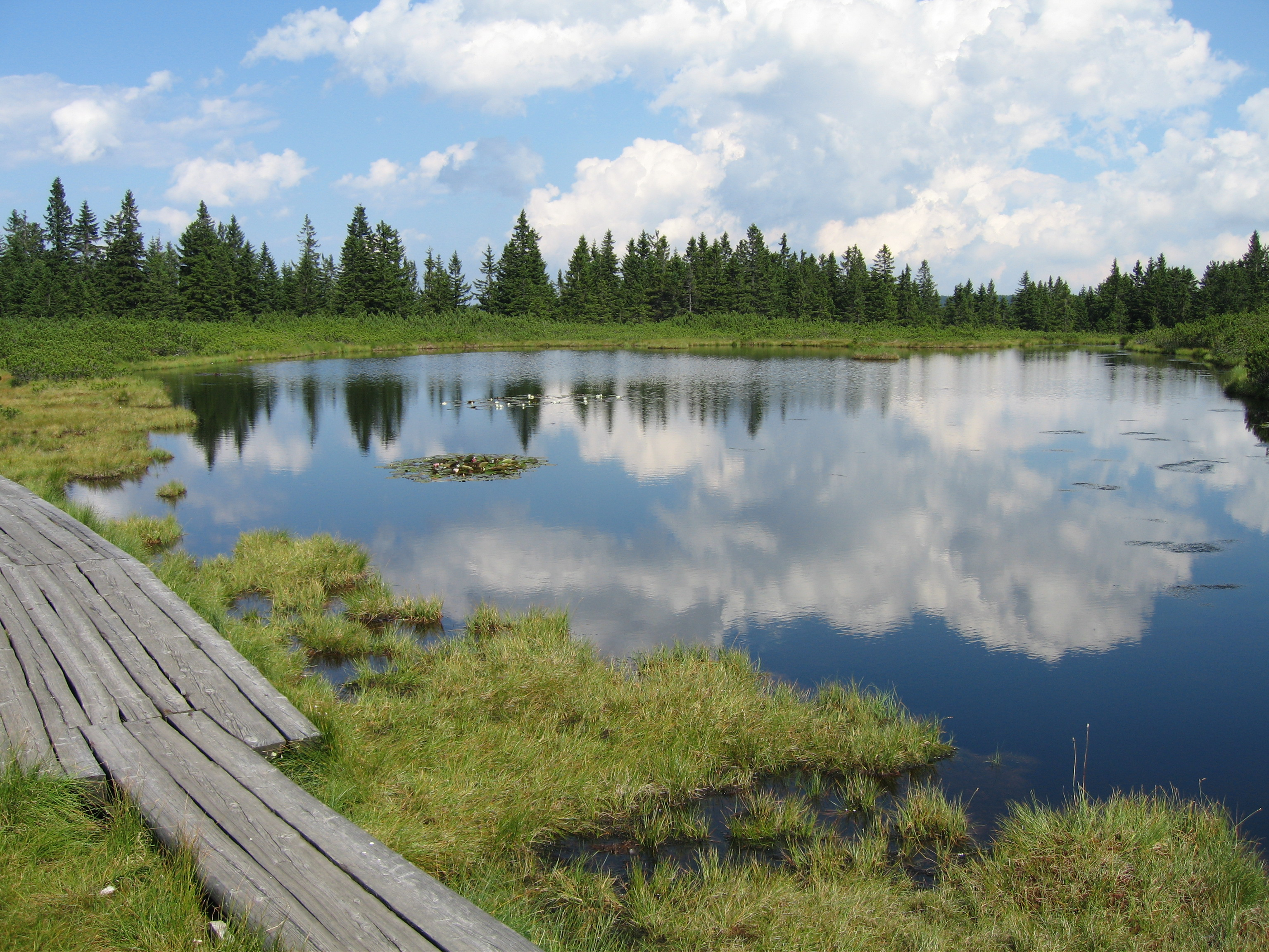 Photo of Ribnica lake, Slovenia.